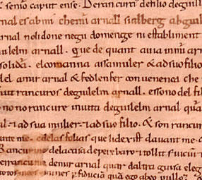 Part of the Greuges (=complaints) of Guitard Isarn. One of the first known texts almost completely in Catalan. ca.1080-1095 A.D.